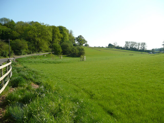 East Hampshire countryside south of Owslebury Land-use in this part of the AONB is mainly for stock with hay and silage production.